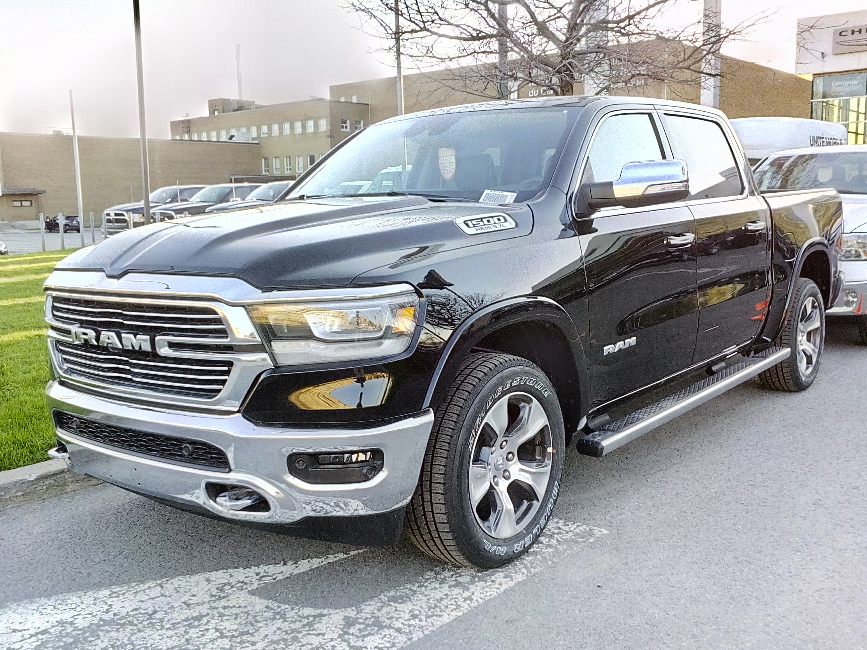 2019 Ram Truck 1500 Laramie photographed at Montreal Dodge Boulevard dealership, QC, Canada